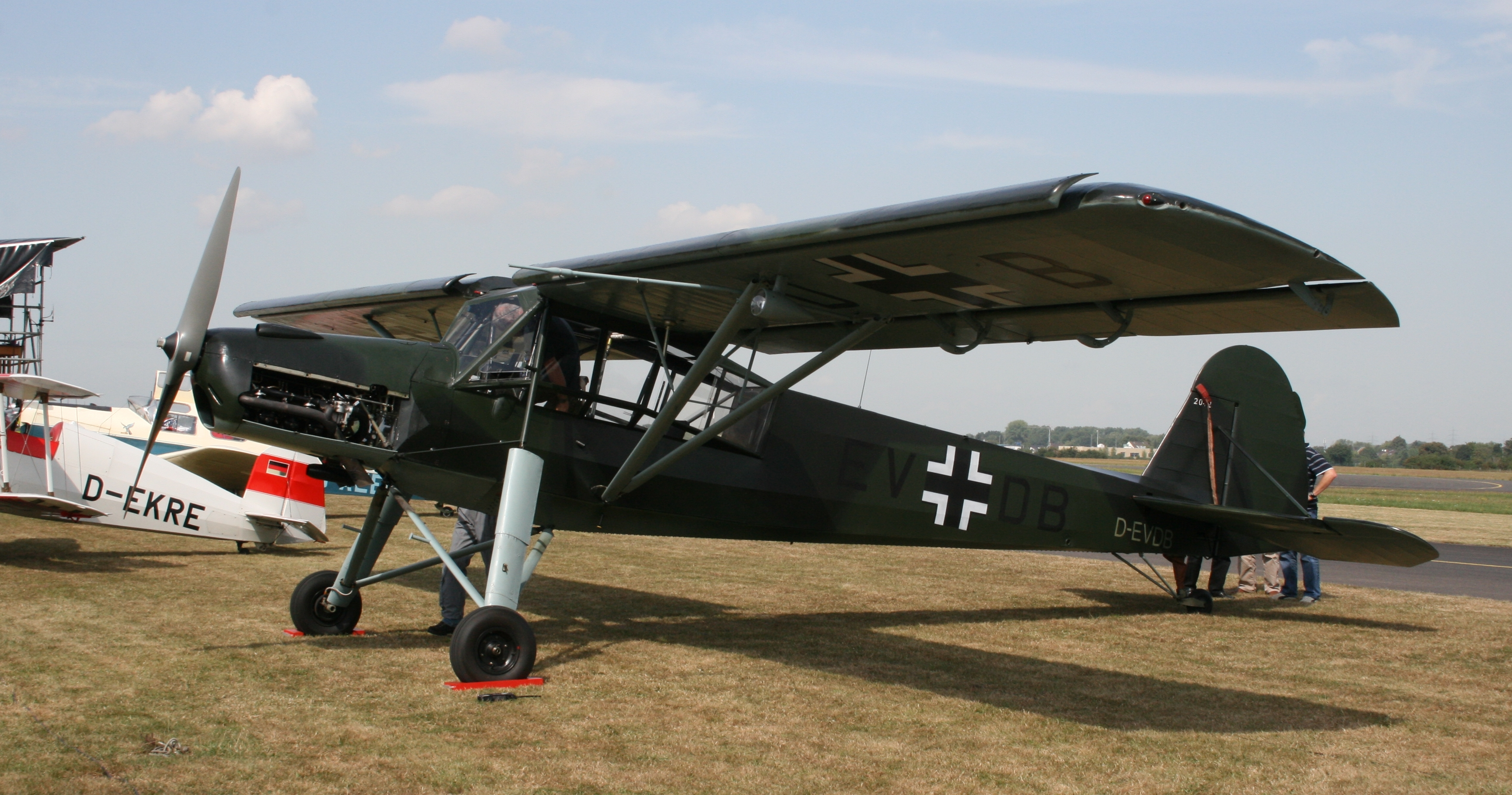 Aircraft Fieseler Fi 156 Storch (D-EVDB) at airfield Bonn/Hangelar, germany; open day/airport party and airshow